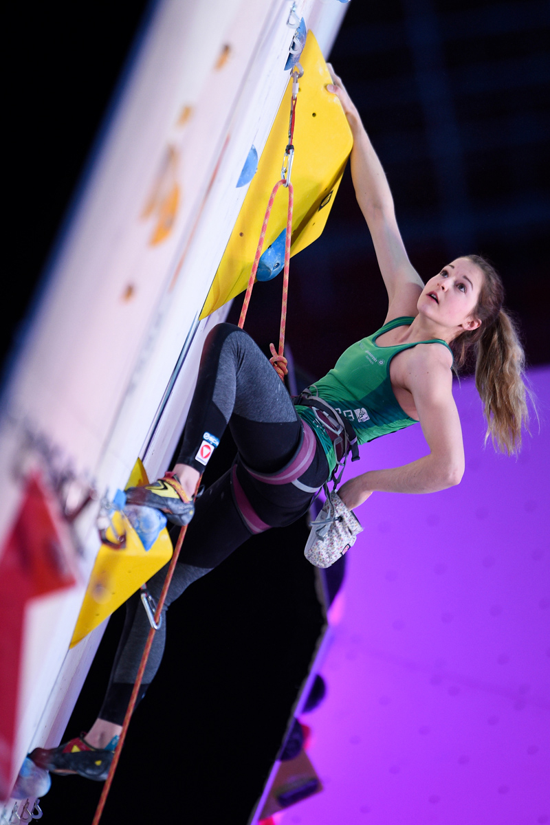 ПИЛЬЦ Джессика (Австрия). Скалолазание, трудность, женщины, полуфинал. III Зимние Всемирные военные игры. Дворец спорта "Большой", Сочи, Россия. 25 февраля 2017. Фото Viktor Berezkin/CISM2017PILZ Jessica (Austria). Sport Climbing, Lead, Women, Semifinal. 3rd CISM World Winter Games. Bolshoy Ice Dome, Sochi, Russian Federation. February 25, 2017. Photo by Viktor Berezkin/CISM2017